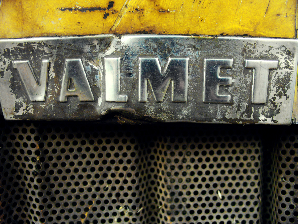 Logo of an old Valmet tractor in Brazil